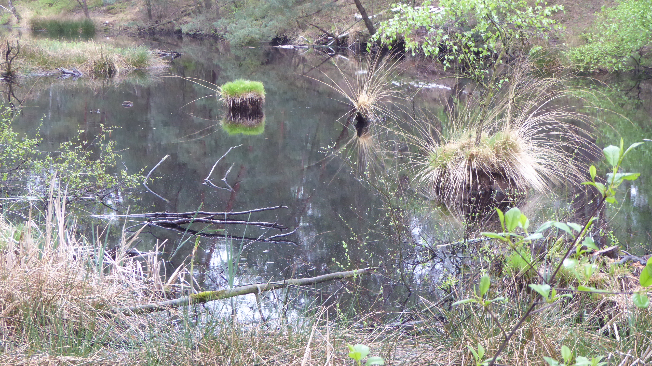 Moor water (dragonfly pond) on the nature trail in the nature reserve Otternhagener Moor (NSG HA 034). In the water some small islands with vegetation have formed on remains of peat.